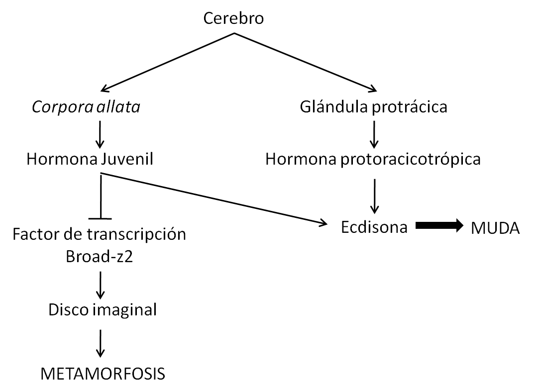 Situación general de la larva de Manduca sexta durante su último instar. Se pueden tomar dos destinos basado en la disponibilidad de alimento.